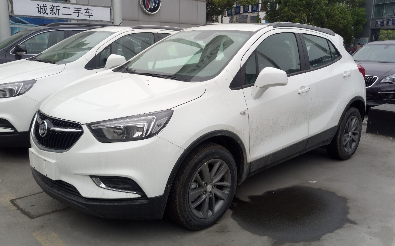 Buick Encore facelift photographed in Shanghai, China.